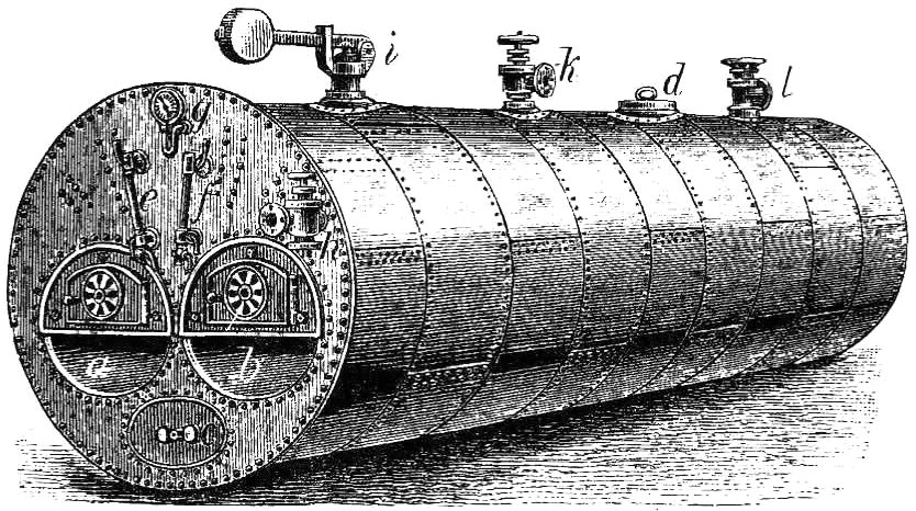 Lancashire boiler